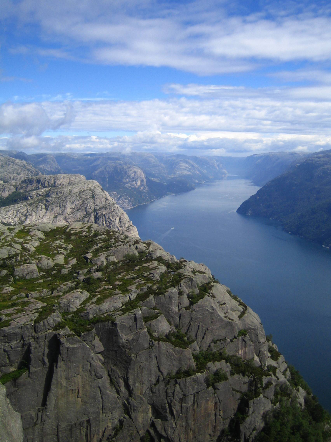 Description: Preikestolen, Norway Source: own photography Date: 2005-08-08 Author: Schue